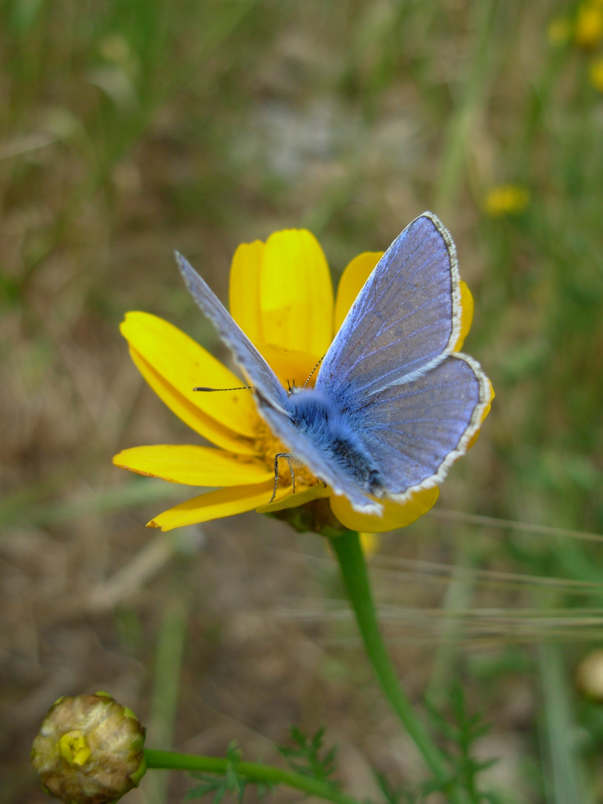 כחליל השברק צולם בירושלים Polyommatus icarus zelleri